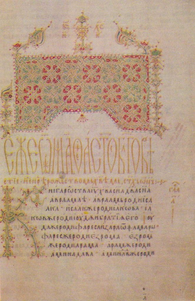 Religious Book (Tetraevanghel) from the Putna Monastery, Romania